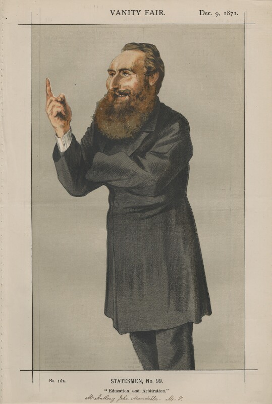 English politician A J Mundella